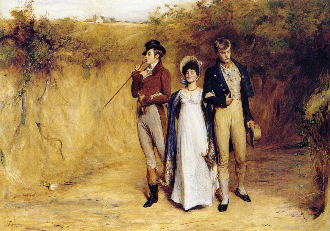 ("Two strings to one's bow" is a traditional English proverb, and also puns on "beau" here.) This Victorian "genre" painting depicts a Regency (early 19th-century) young lady delighted at being the focus of attention of two rival "beaux" (handsome potential suitors), and even seeming to enjoy playing them off against each other. It would probably have struck a somewhat false note (with respect to the prevailing standards of 1882) for a Victorian artist to portray a contemporary respectable Victorian young lady uninhibitedly rejoicing in playing such a game (unless the illustration was didactically disapproving); but by moving it back to the Regency, it all somehow became quaint and historical, and the artist was freed from any perceived necessity to offer a moral lesson. (In Pettie's painting, the bodice of her dress and the sharp vertical creases spaced widely around the hem are not really authentic Regency styles.)